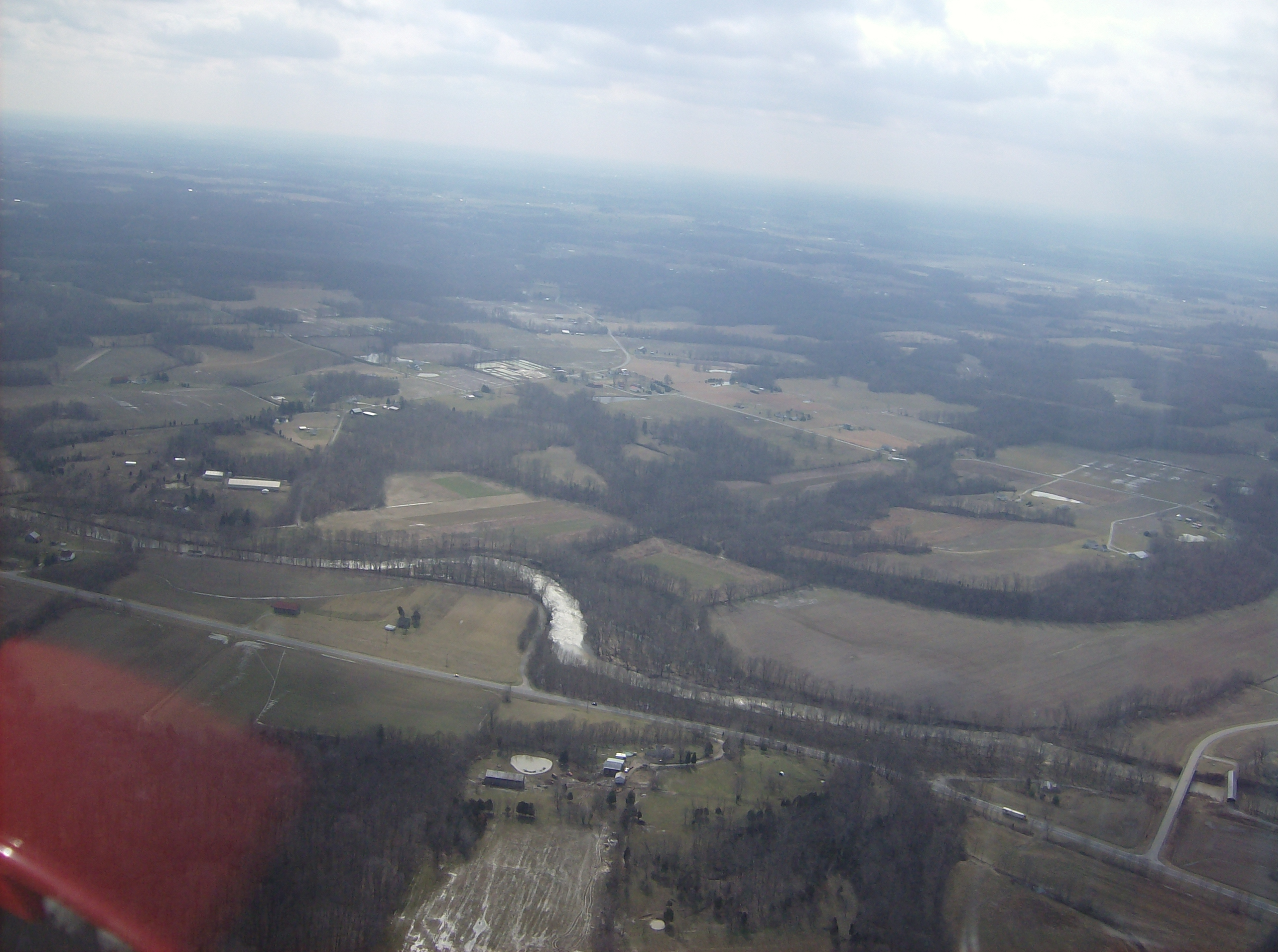 Along White Oak Creek in central Scott Township, Brown County, Ohio, United States. Intersection on right side of picture is U.S. Route 68 and Kimball Ford Road, south of New Hope. Picture taken from a Diamond Eclipse light airplane at an altitude of 2,450 feet MSL and a bearing of approximately 220º.